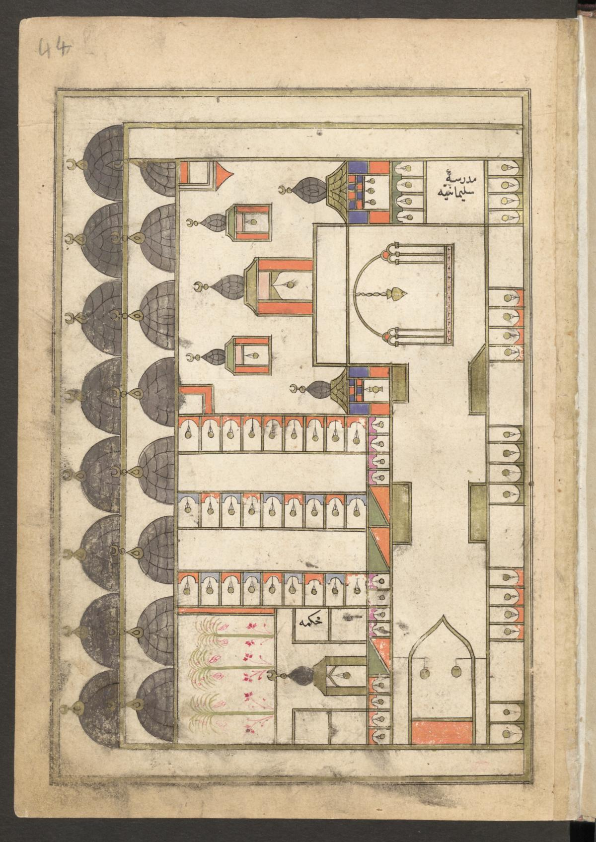 Illustration with Madrasa Sulaimānīya in Mecca, in Ottoman manuscript dated from 1709 in Berlin Staatsbibliothek (Ms. or. oct. 1602, f.44r)